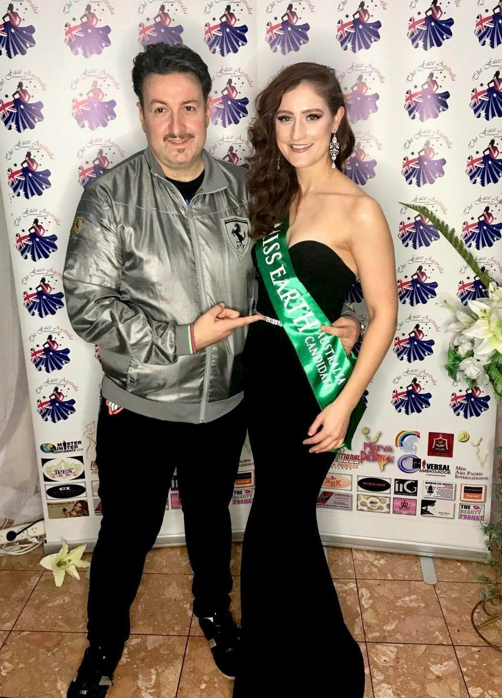 Candidate Louisa Brown for Miss Earth Australia with Maurice Novoa at a Melbourne beaty Function that same year won Miss Congeniality of Asia Pacific International 2017.